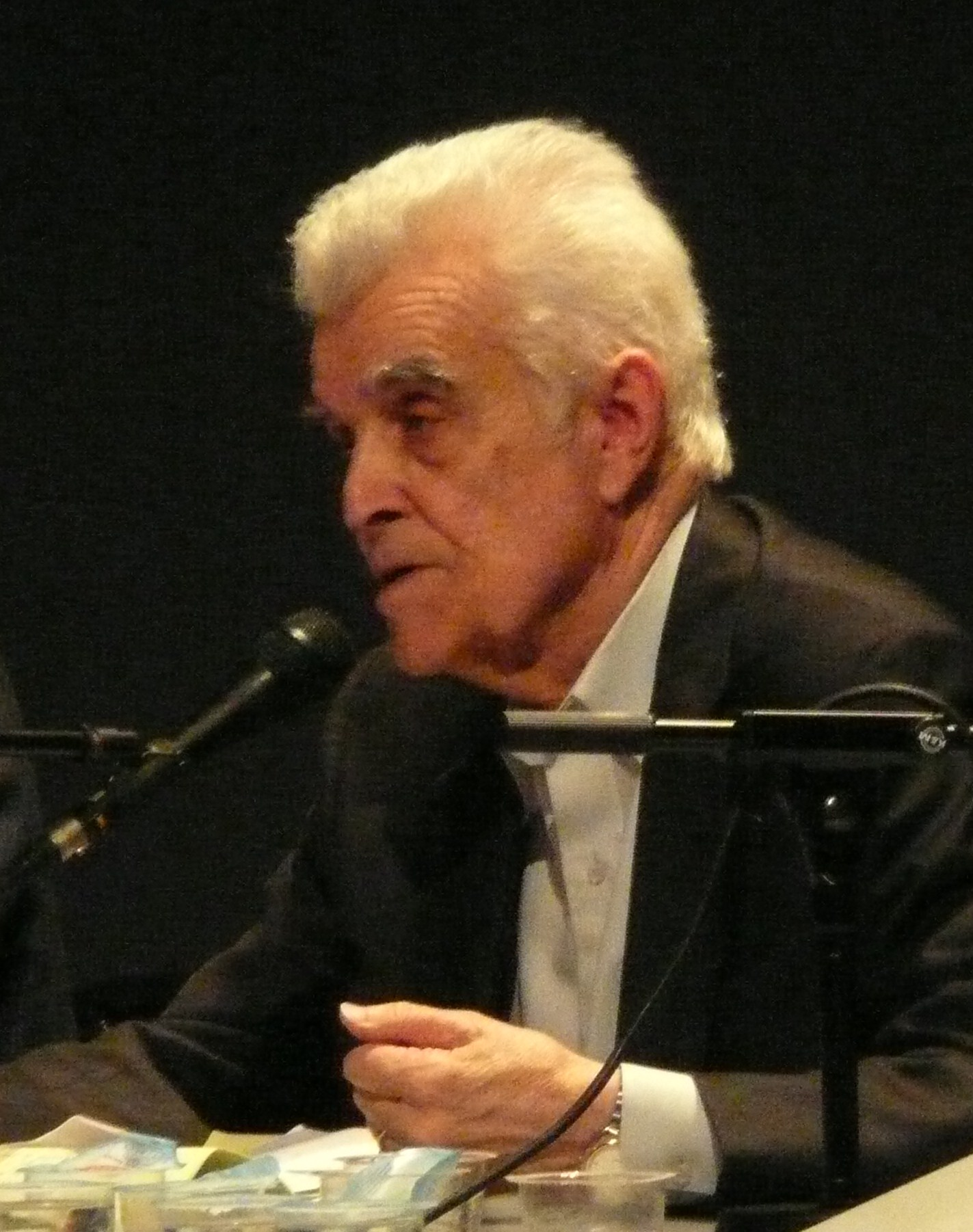 René Girard during a colloquium in Paris "End of war and terrorism"